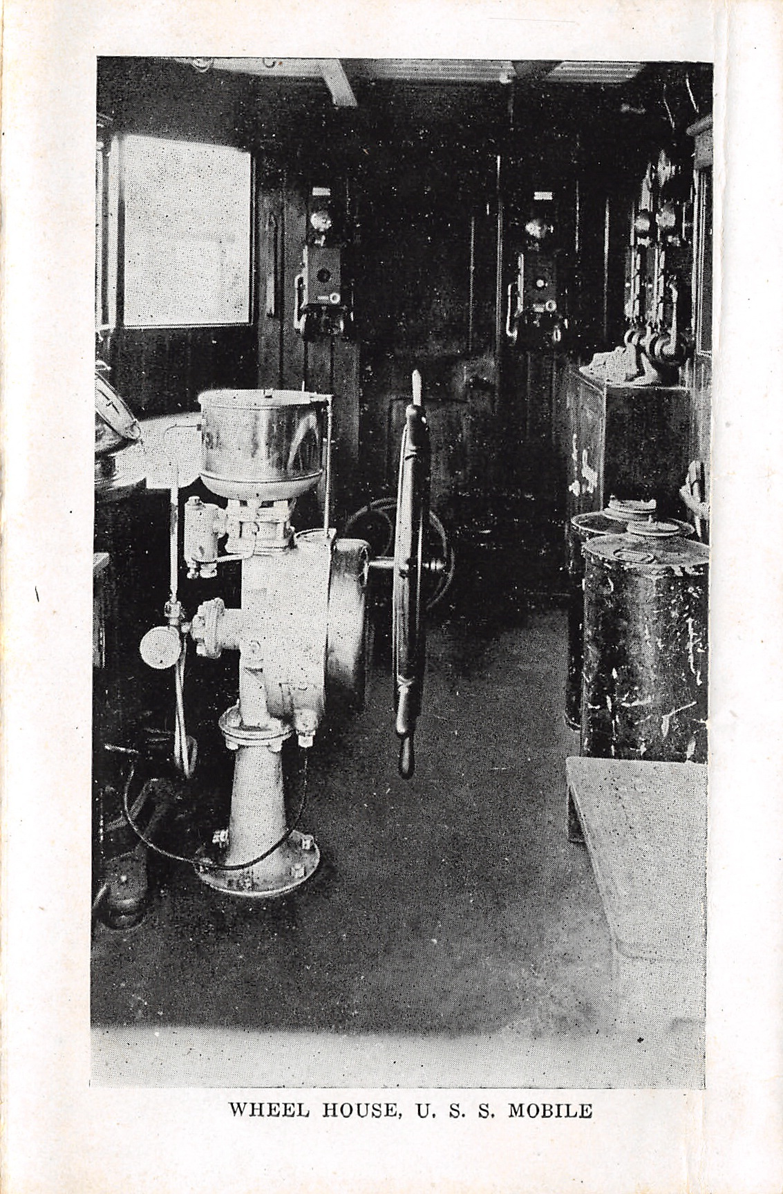 Wheel House, U.S.S. Mobile